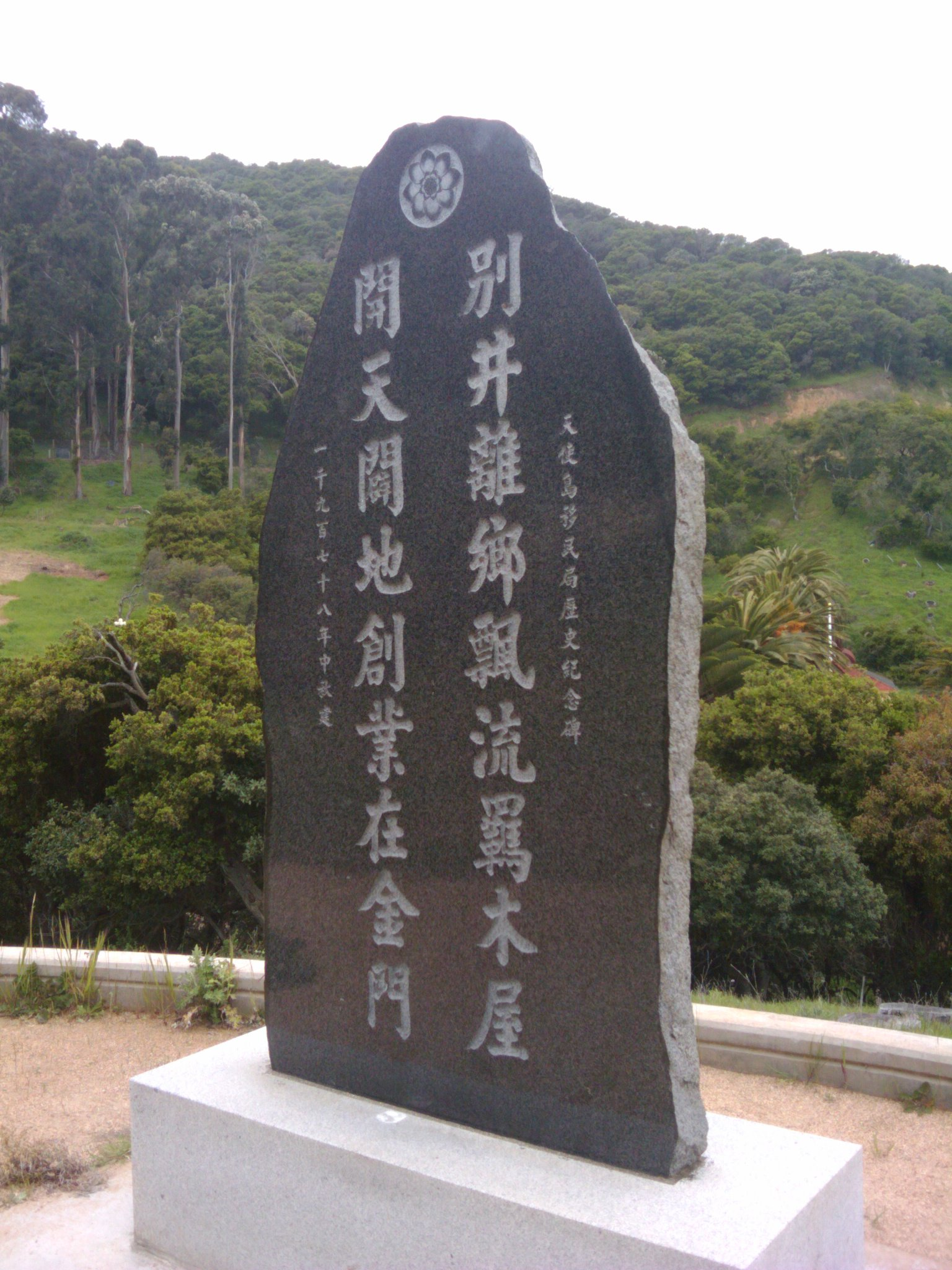 "Leaving their homes and villages, they crossed the ocean only to endure confinement in these barracks. Conquering frontiers and barriers, they pioneered a new life by the Golden Gate." (Eddie Ngoot Ping Chin) Monument near United States Immigration Station. Taken during San Francisco Meetup 13 on Angel Island near San Francisco.